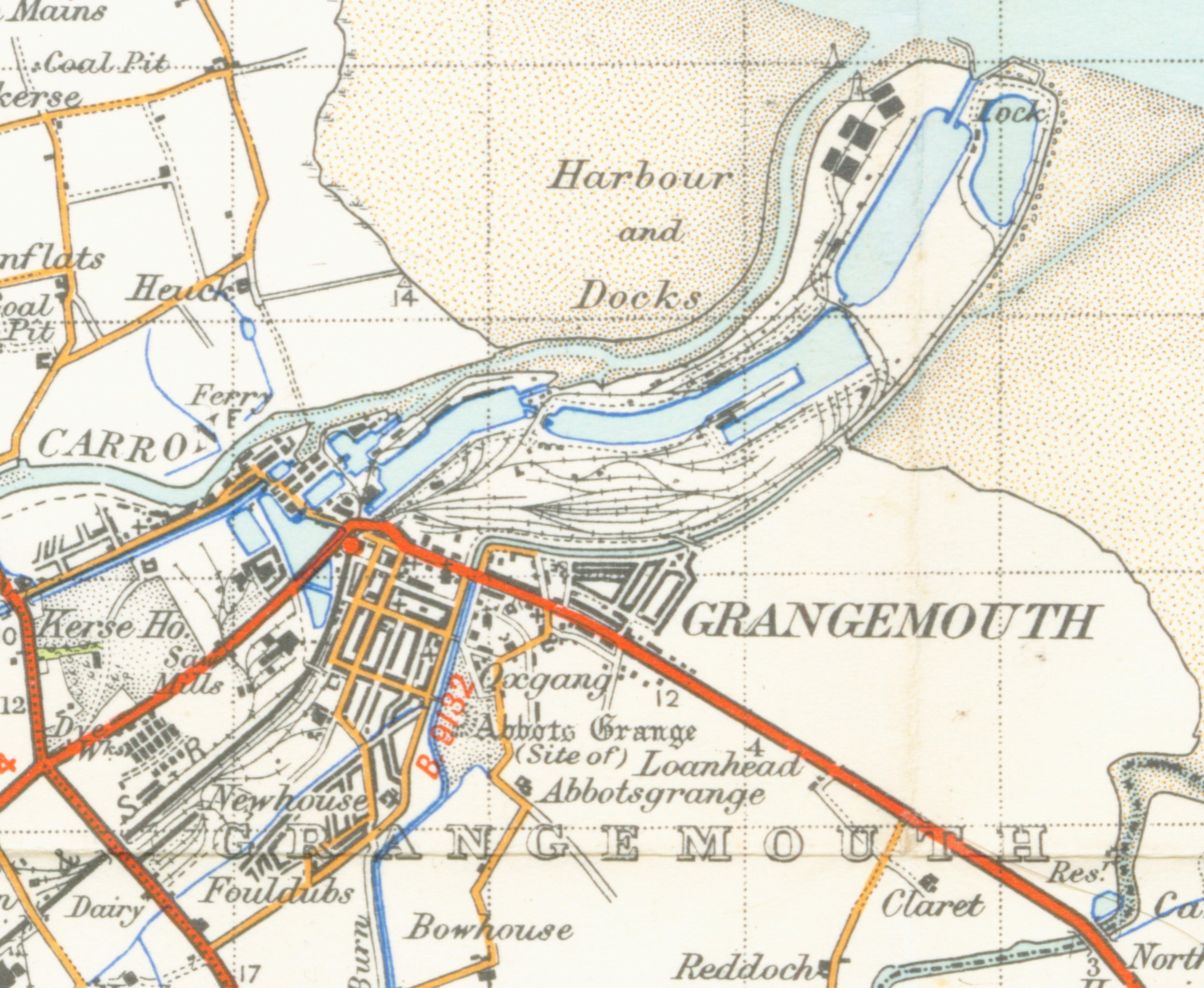 map of Grangemouth 1 inch to the mile scale scanned at 900 DPI